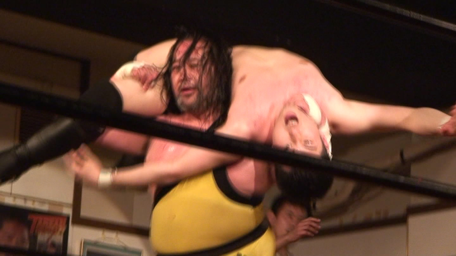 Argentine back breaker (prowrestling move)